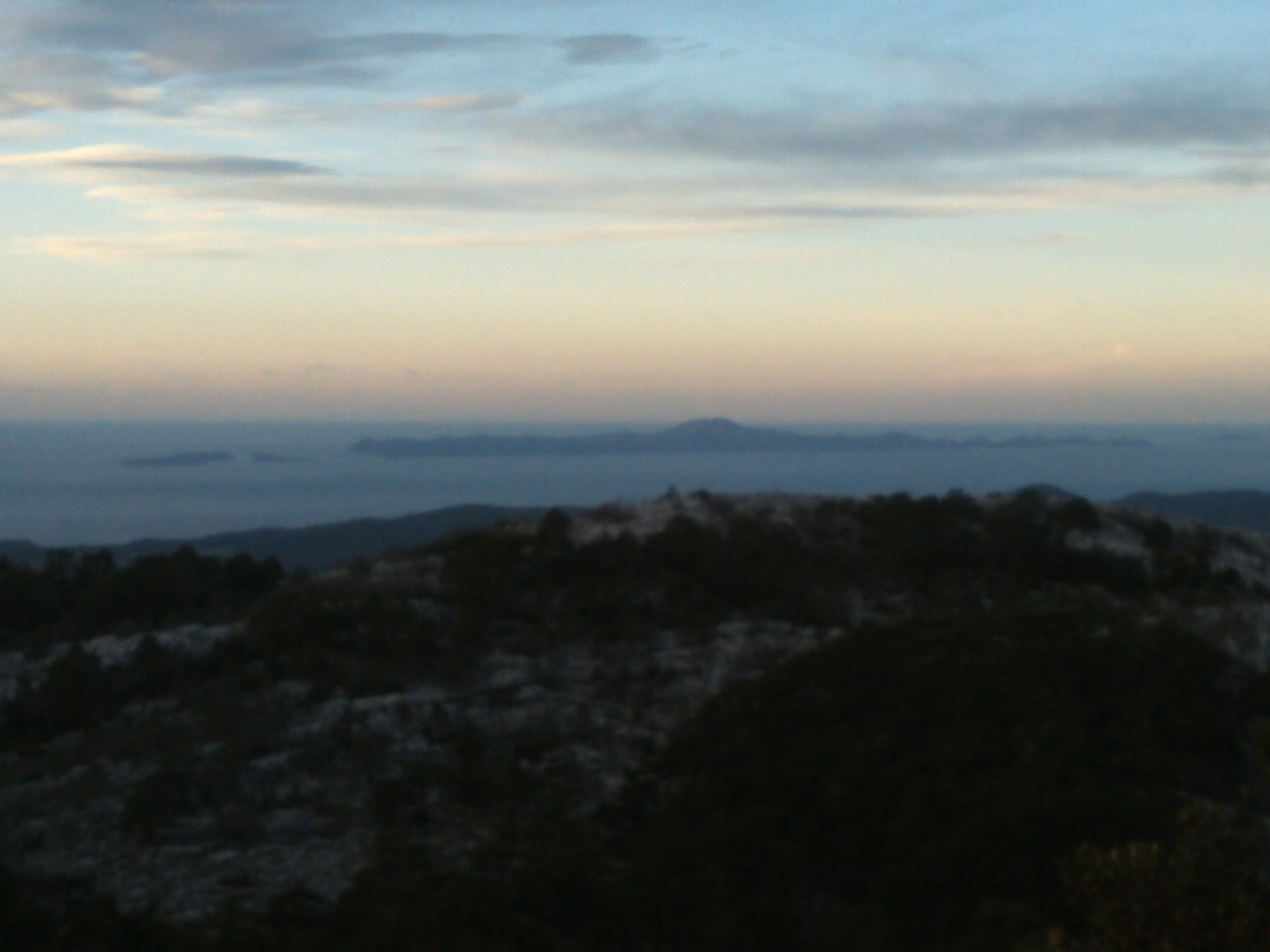 Lastovnjaci as seen from north (Pelješac Peninsula)